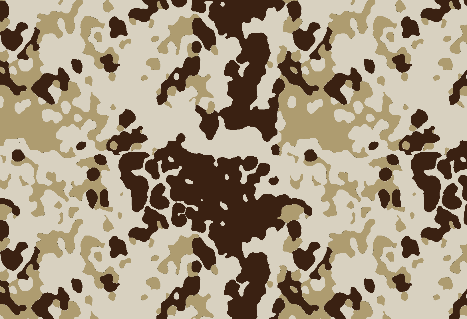 The Japanese desert version of the Flecktarn